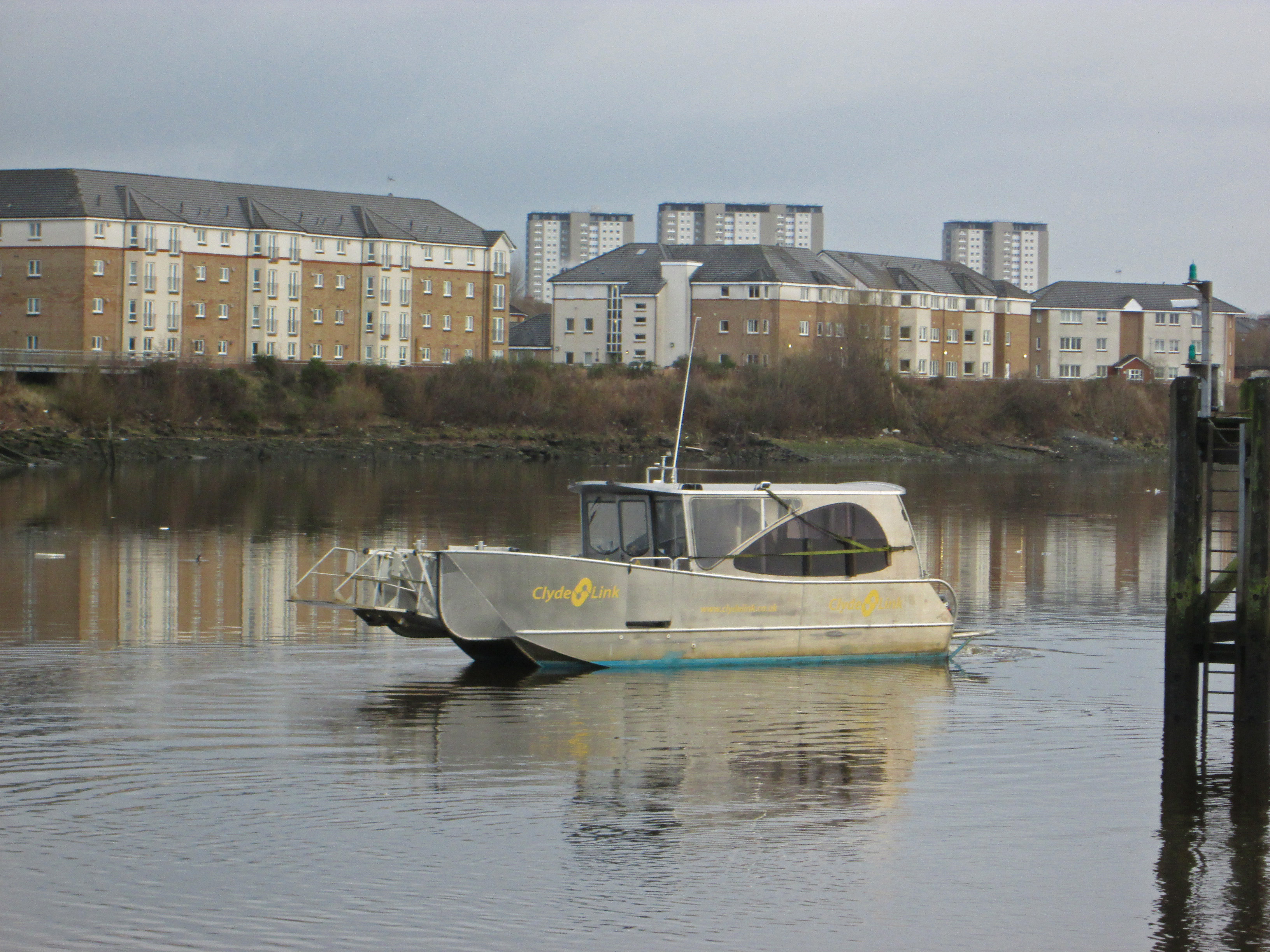 Clydelink Renfrew Ferry seen from Renfrew shore at Ferry Inn